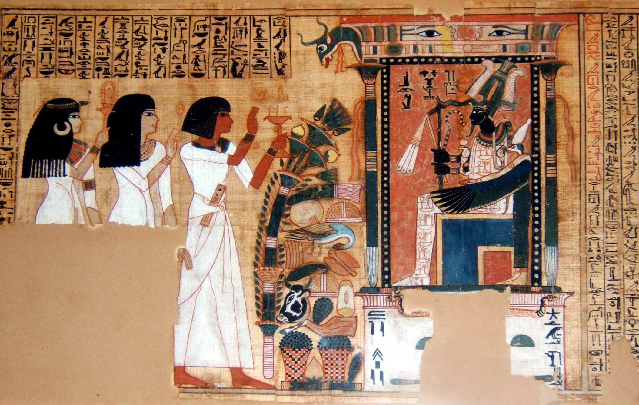 Part of the Book of the Dead of the scribe Nebqed, under the reign of Amenophis III (1391-1353 BC), 18th dynasty. Followed by his mother Amenemheb and his wife Meryt, Nebqed meets the Egyptian god of the dead, Osiris.